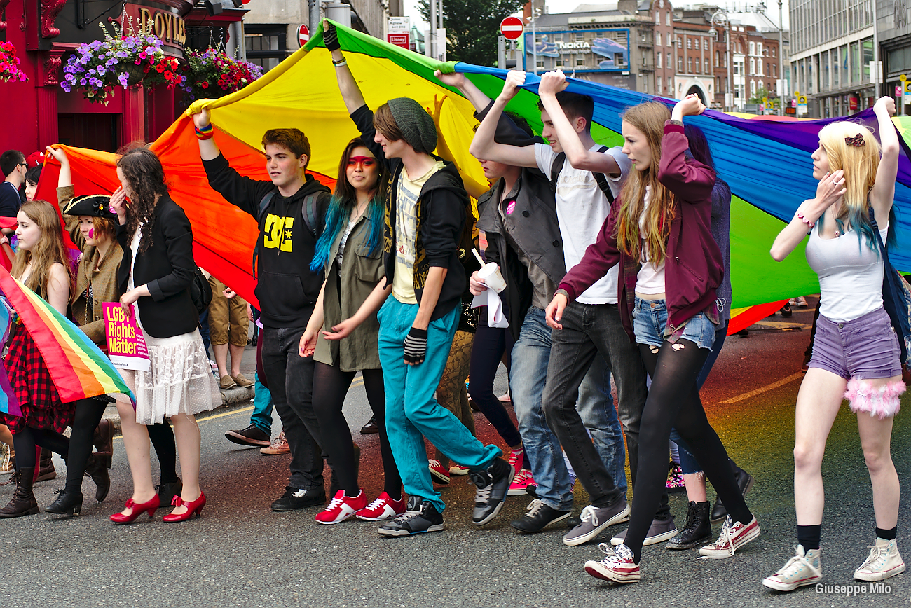 Dublin gay pride 2013